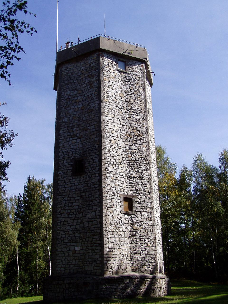 Studený vrch (660 m) lookout tower in the Hřebeny, Dobříš cadastral area, Příbram District, Czech Republic.